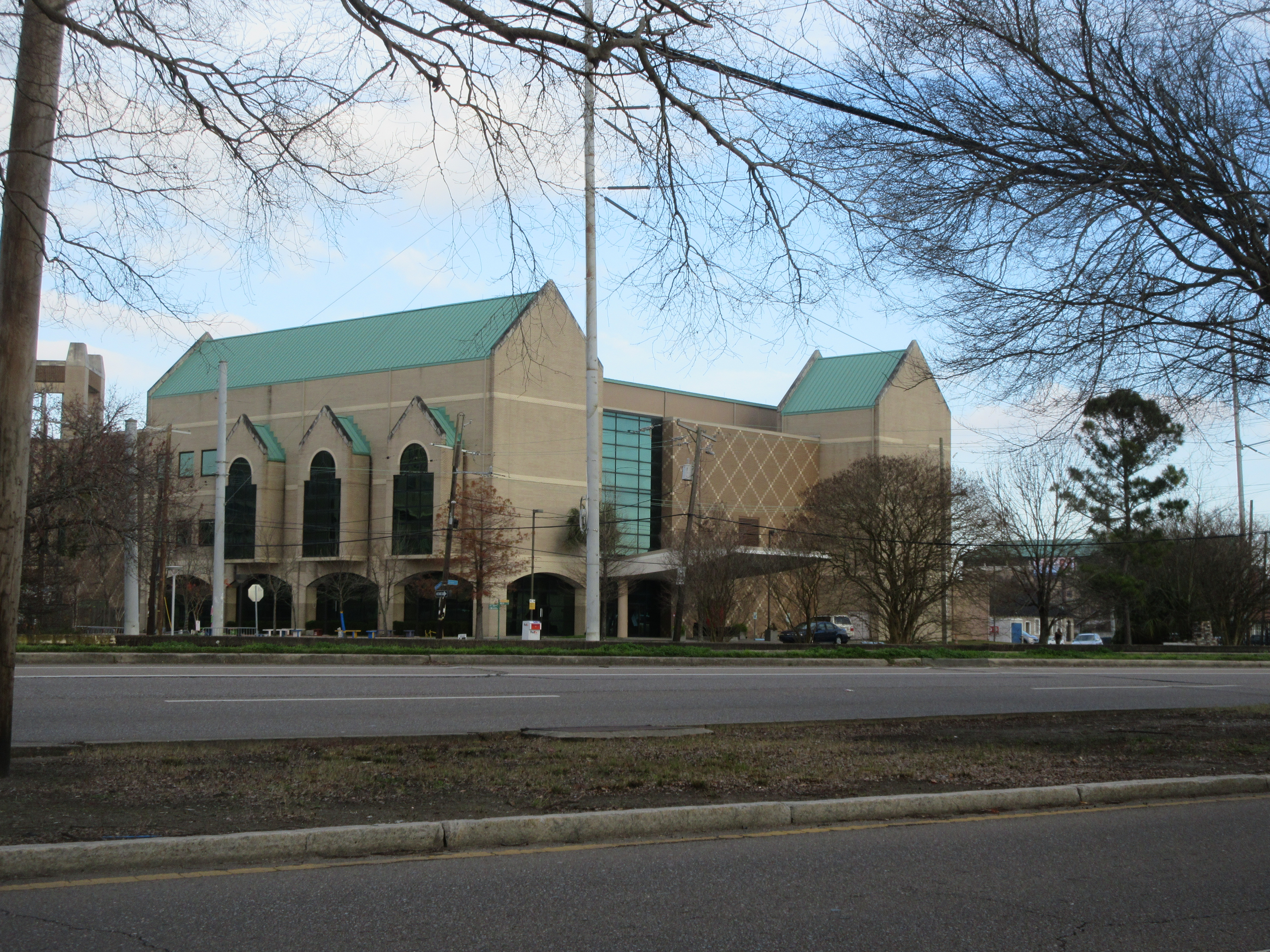 Gert Town, New Orleans